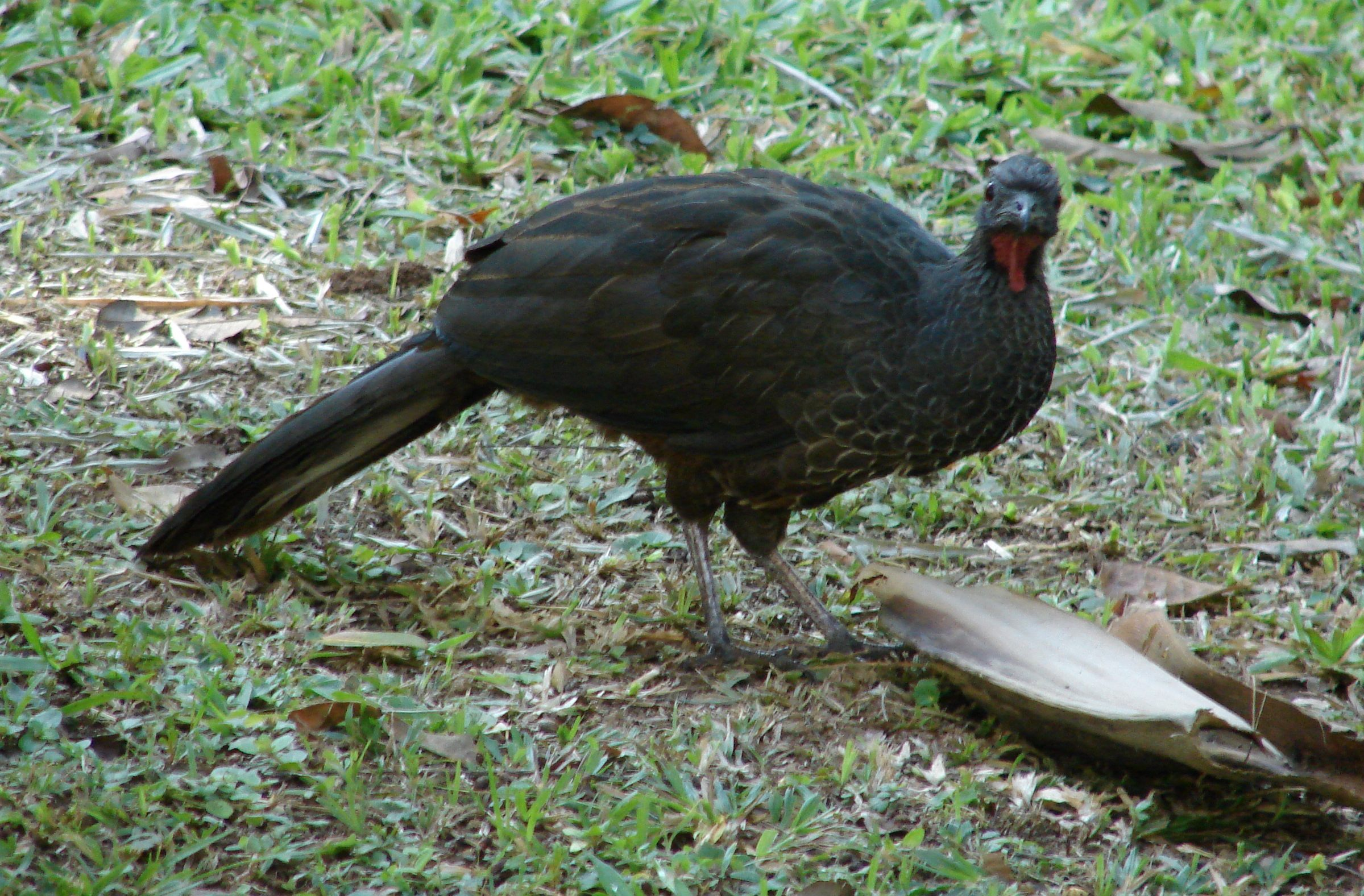 Rusty-margined Guan (pt-Br=Jacupemba). Picture taken at Rio de Janeiro Botanical Garden.It is a free bird.